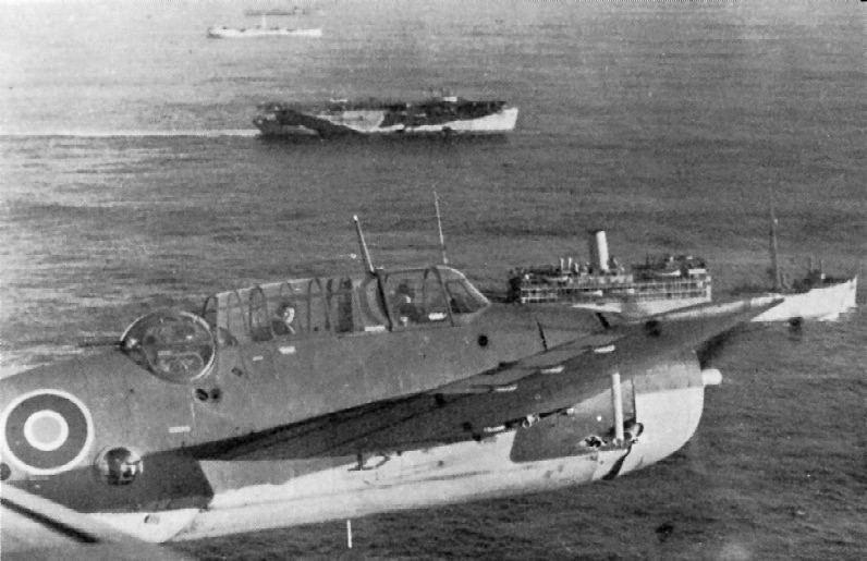 The British escort carrier HMS Biter (D97) with one of her Grumman Avenger torpedo bombers in the foreground during convoy escort duty in the Atlantic, 1943/44, exact date unknown.